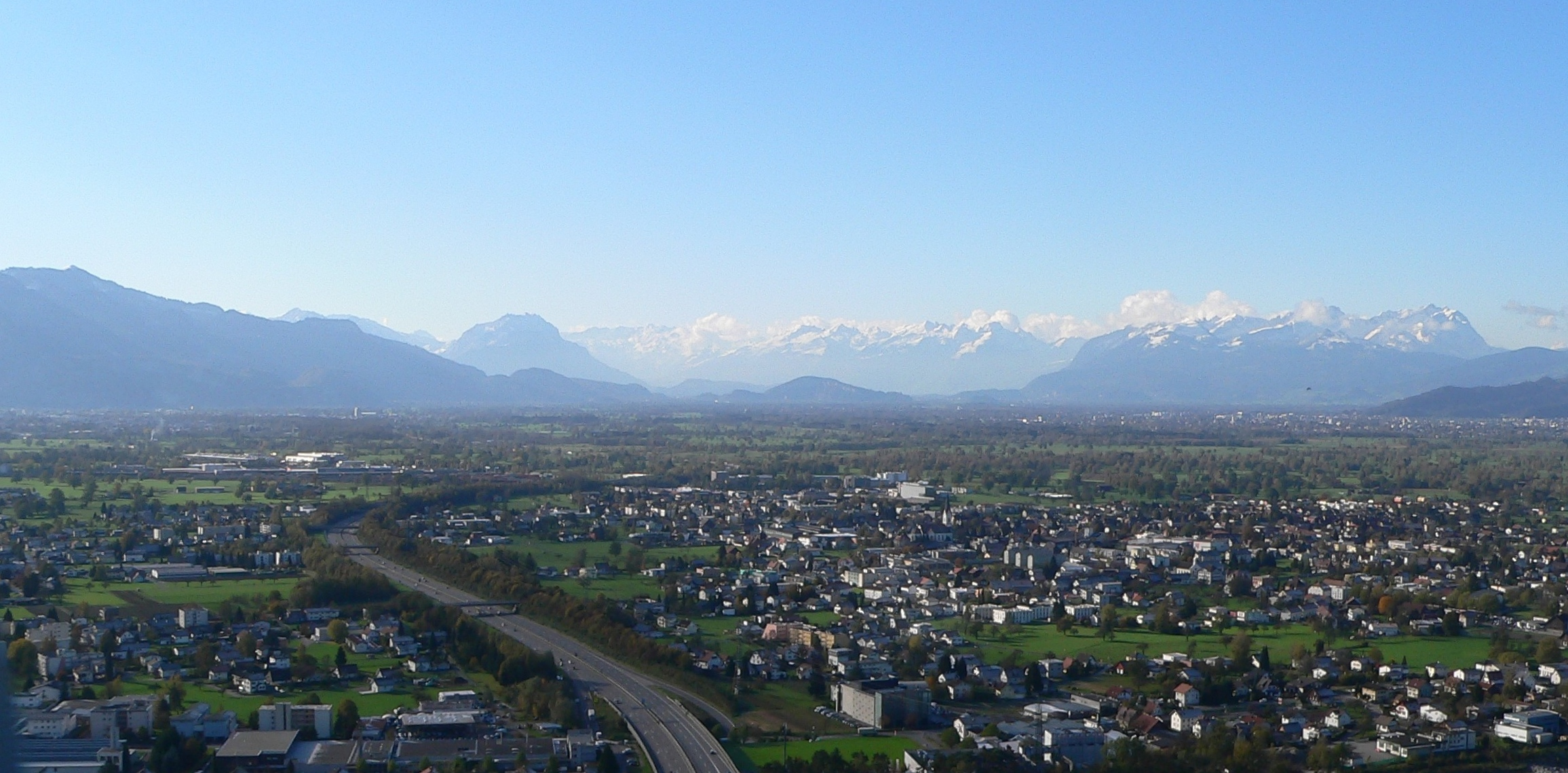 Rhine valley. View from Gebhardsberg southwards. in the foreground city of Lauterach (Vorarlberg/Austria). background right Alpstock mountains with summit Säntis. In the center background the Glarner Alps